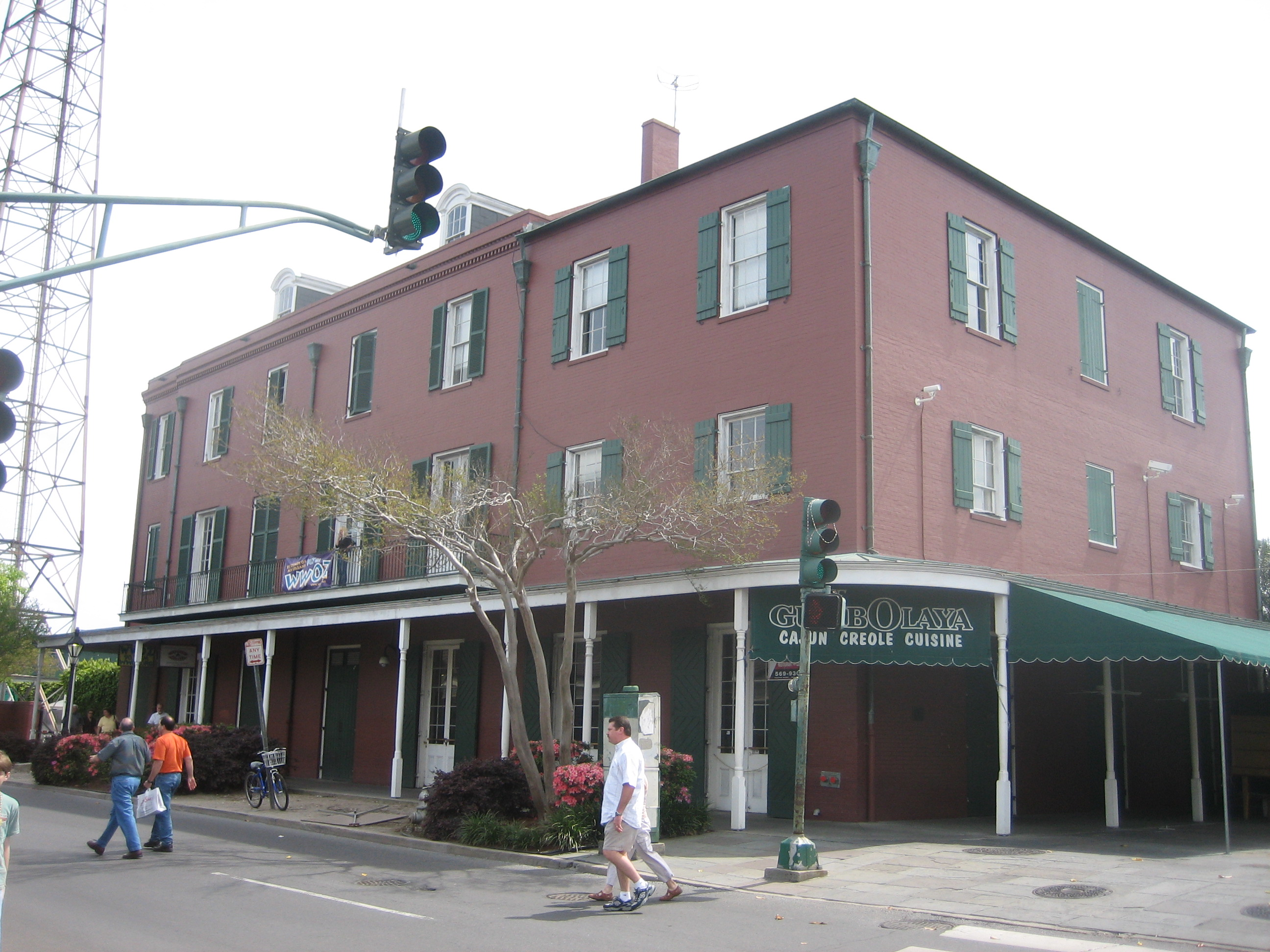 French Quarter, New Orleans. 1830 commercial building known as "The Red Shops" now houses a restaurant, offices of the French Market, and the post-Katrina studios of radio station WWOZ Photo by Infrogmation, 2007